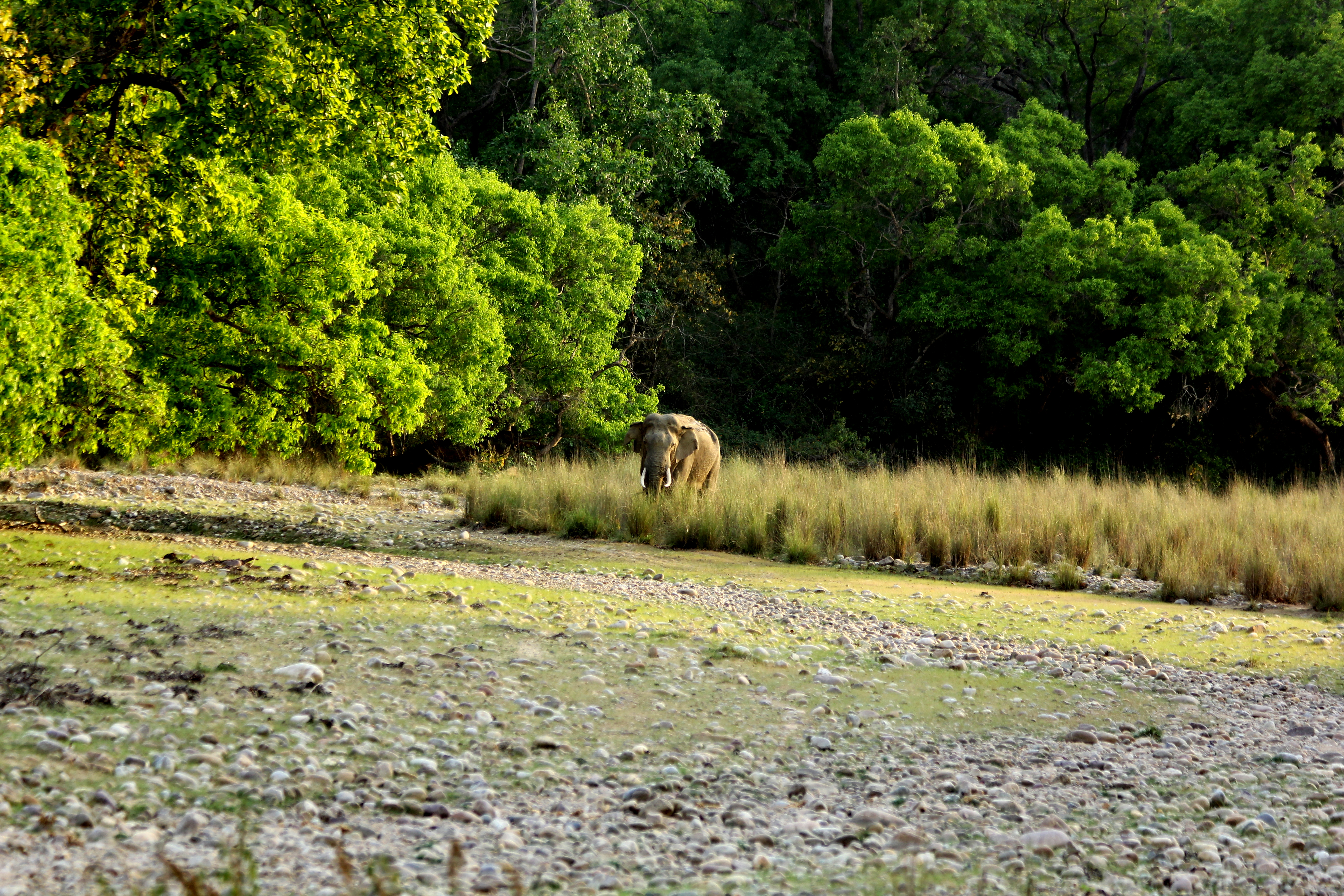 Image of Tusker in it's natural habitat.